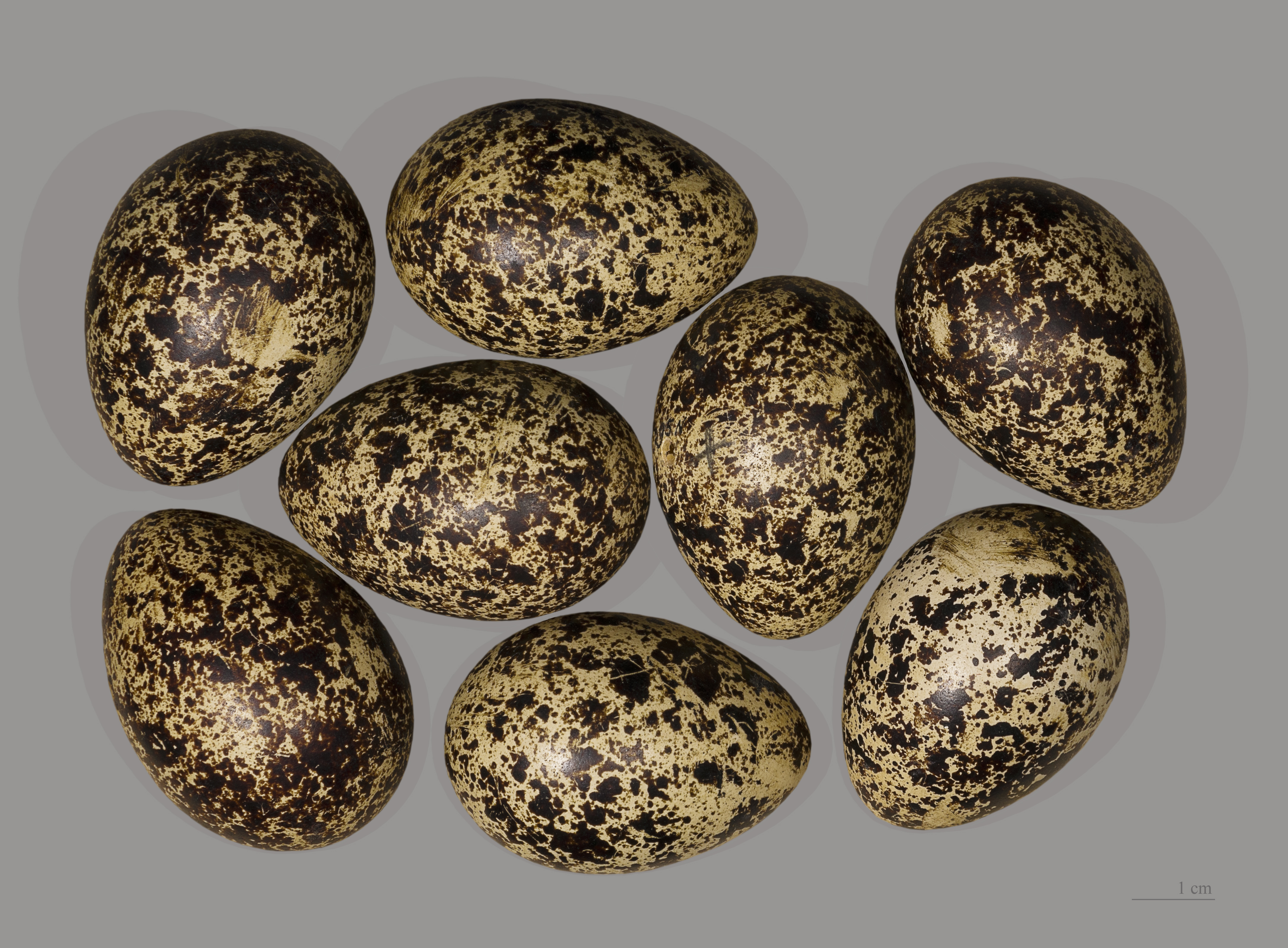 Eggs of Red Grouse. Collection of Jacques Perrin de Brichambaut. Locality: Kirkwall, Orkney, United Kingdom